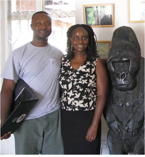 Photograph of Dr. Gladys Kalema-Zikusoka and Mr. Lawrence Zikusoka, two of the co-founders of Conservation Through Public Health